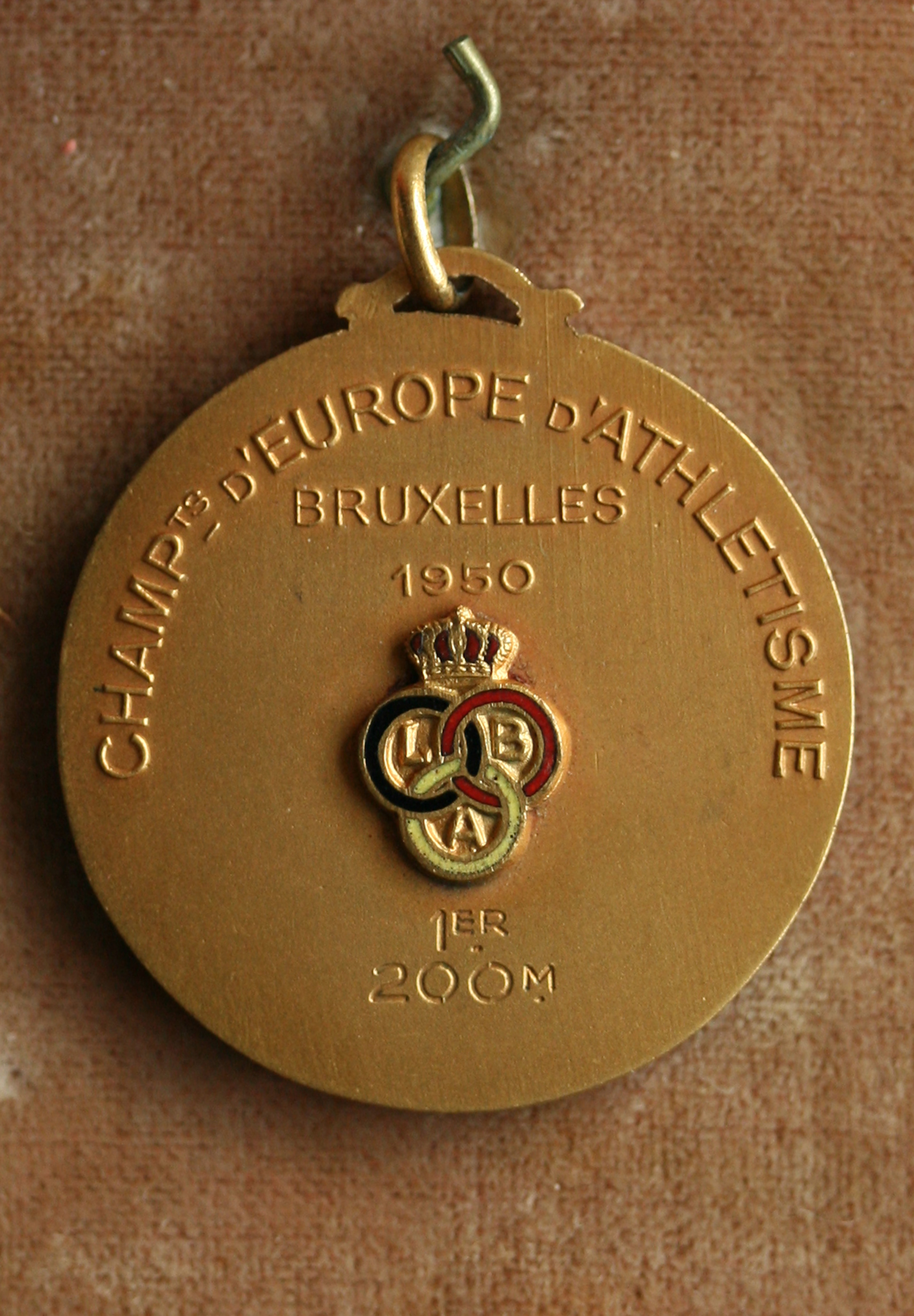 A photograph of the 1950 European Athletics Championships Gold Medal for the 200m won by Brian Shenton